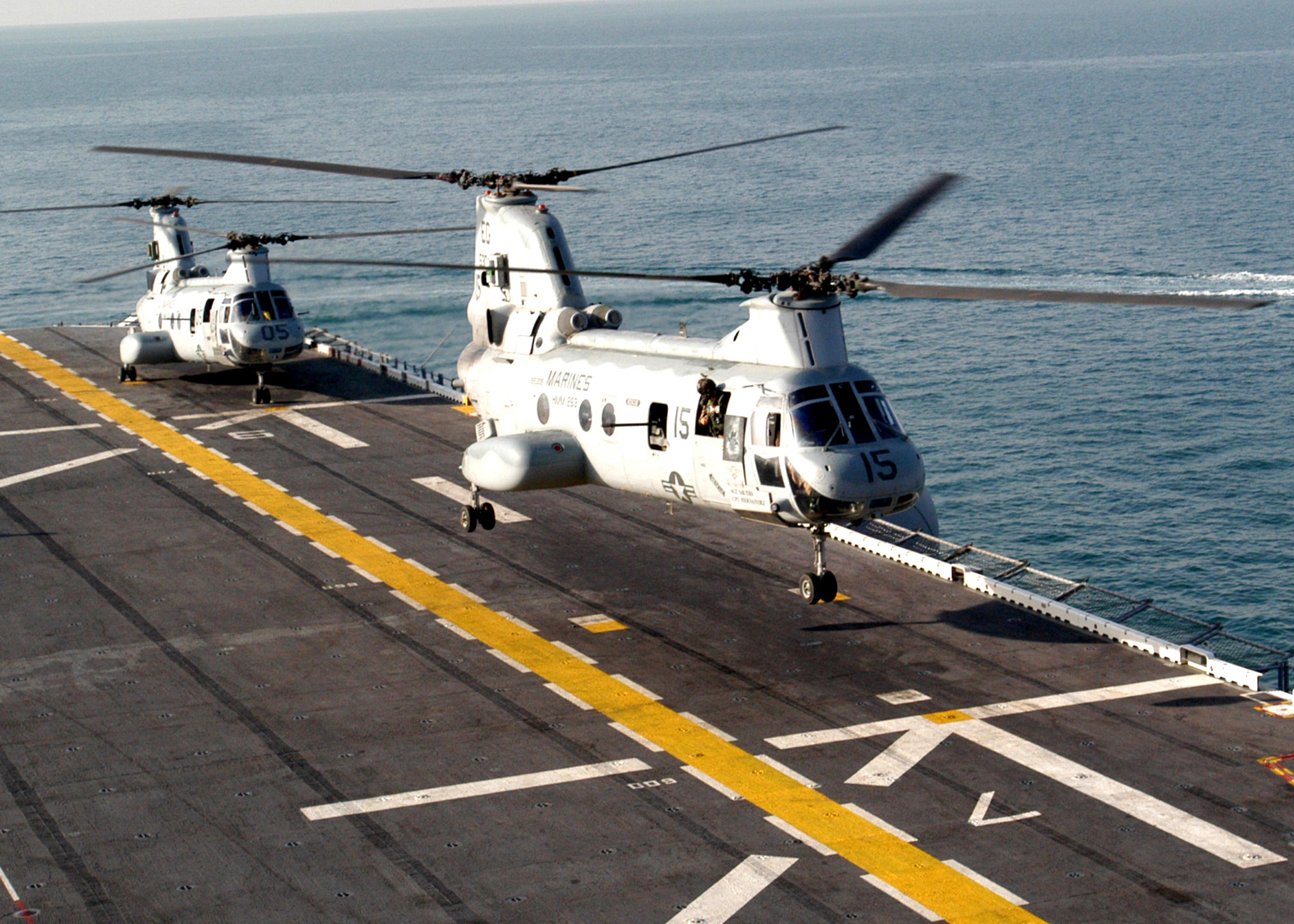 A U.S. Navy CH-46 Sea Knight helicopter lifts off from the flight deck of the amphibious assault ship USS Kearsarge (LHD 3) on July 7, 2004. Kearsarge is deployed to transport elements of the 24th Marine Expeditionary Unit in support of Operation Iraqi Freedom.